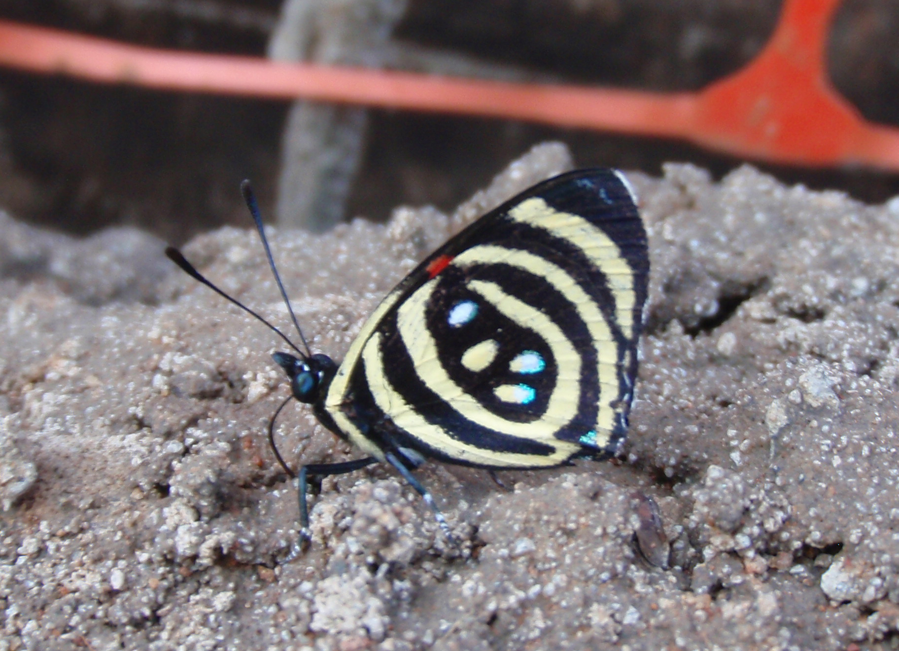 Calliore hydaspes in Iguazu National Park, Argentina